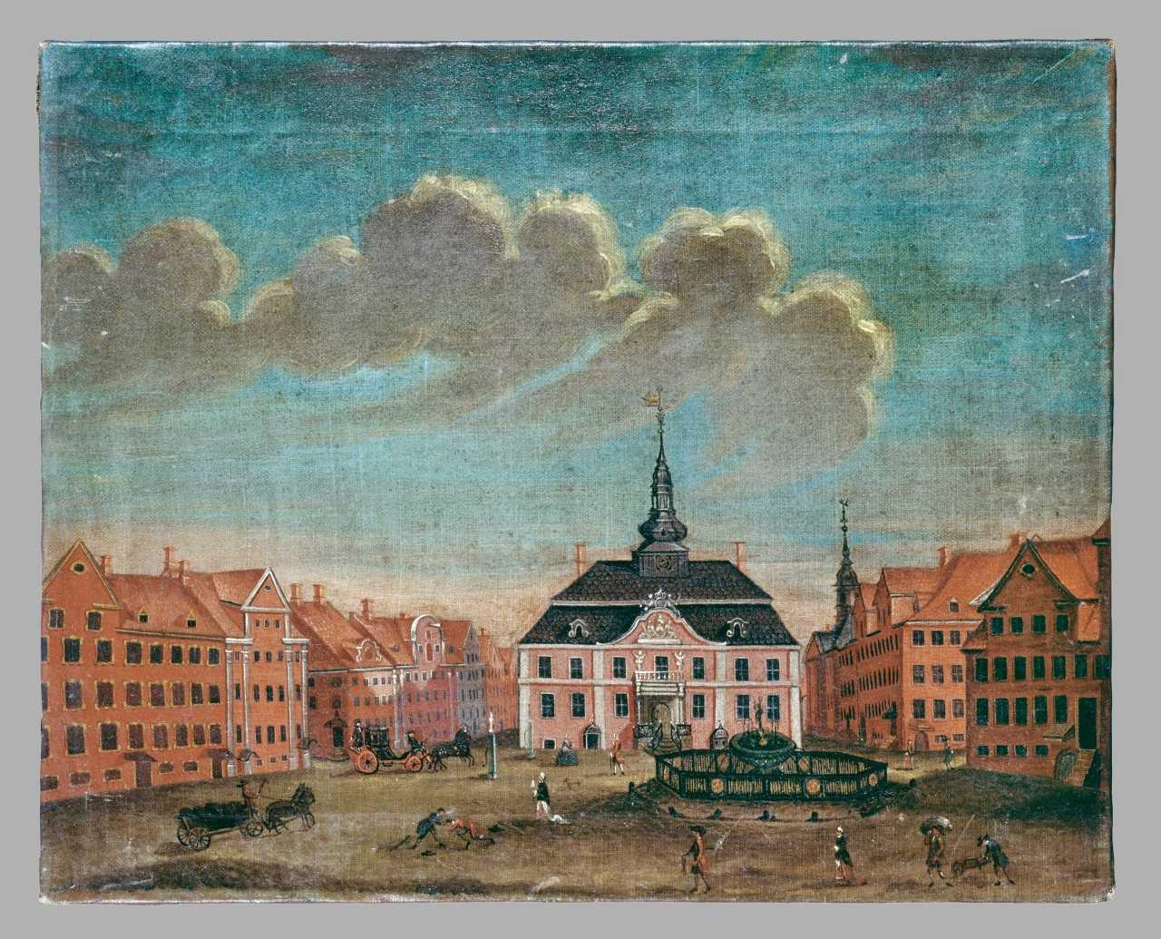 Gammeltorv in Copenhagen, Denmark